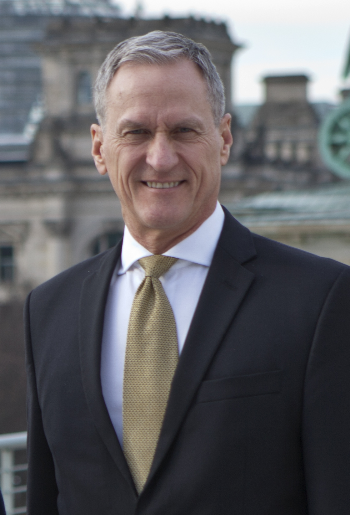 South Dakota Governor Dennis Daugaard visiting the Embassy of the United States in Berlin